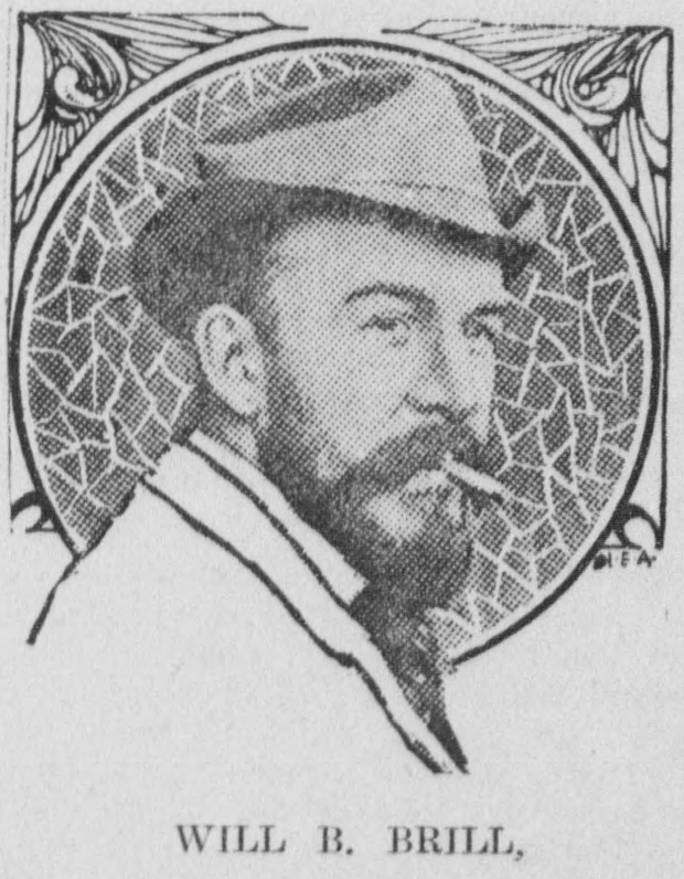 William H. Brill was an American journalist. Note that the middle initial is a capital B rather than a capital H; this type of error was common in newspapers of the day.